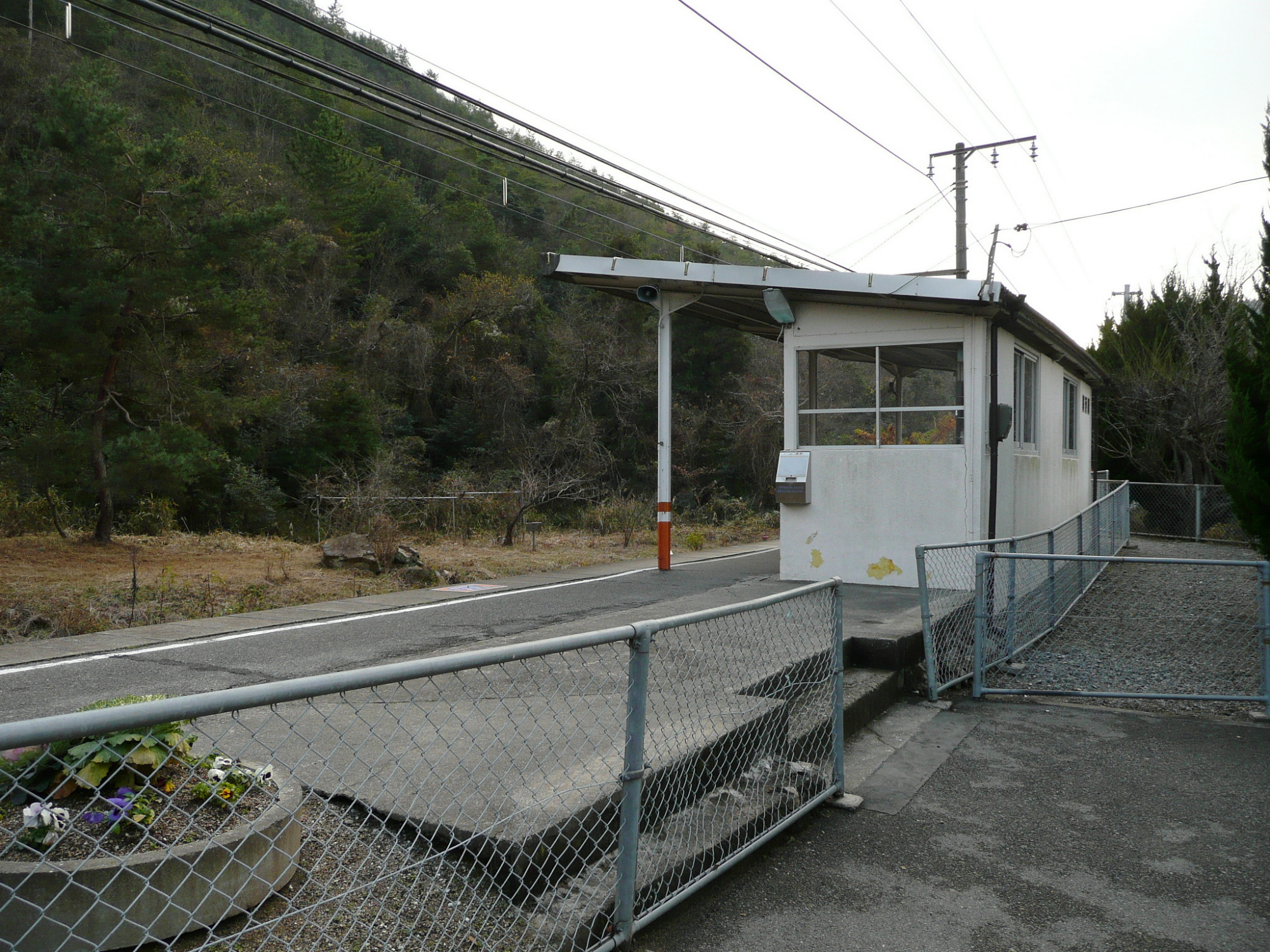 West Japan Railway Ako Line Sougo Station. / 赤穂線寒河駅